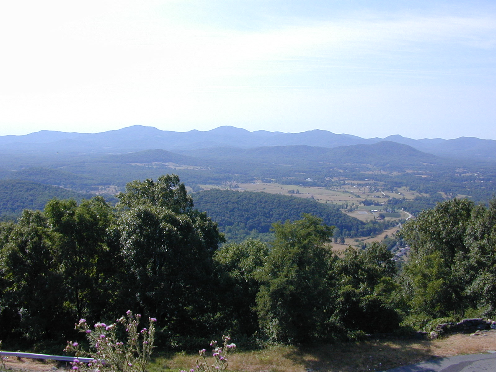 Blue Ridge Mountains near Charlottesville, Va Photo by Jan Kronsell, 2002